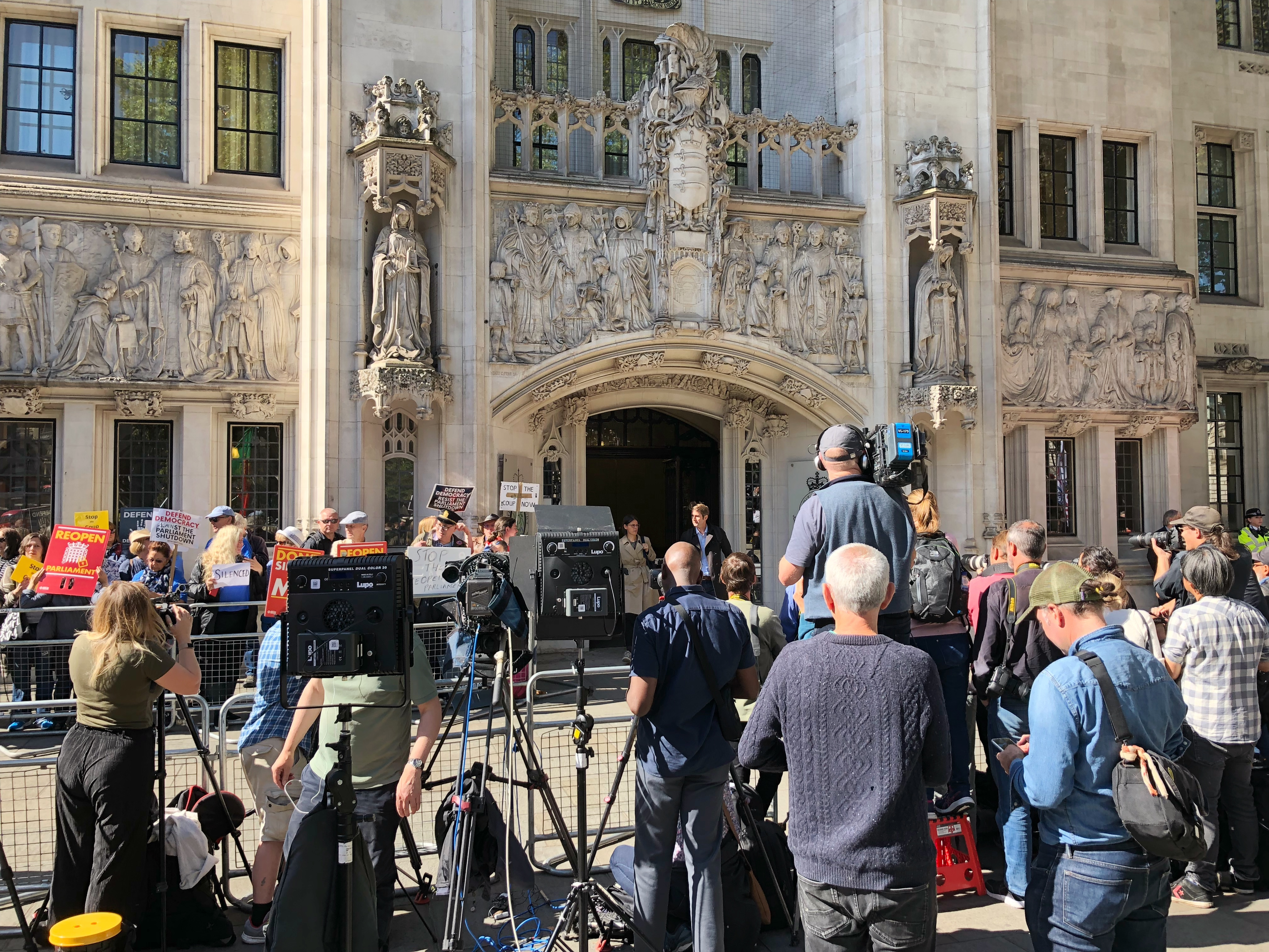 Journalists assembled outside the Supreme Court in London as legal debates continue in case brought by Gina Miller challenging Boris Johnson's decision to prorogue UK Parliament.